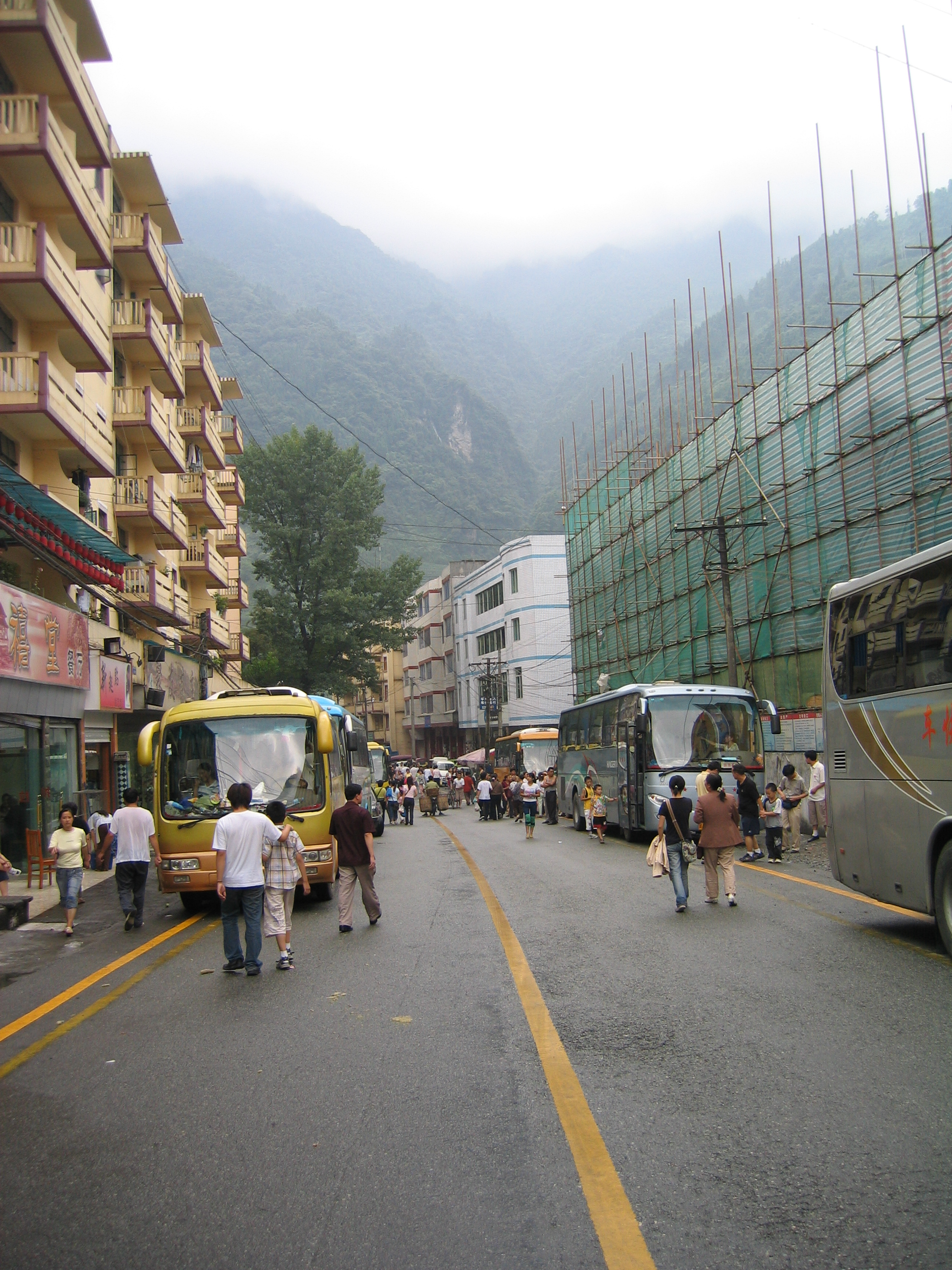 Yingxiu, Wenchuan County, Sichuan Province, People's Republic of China (映秀, 汶川县, 四川省, 中华人民共和国)